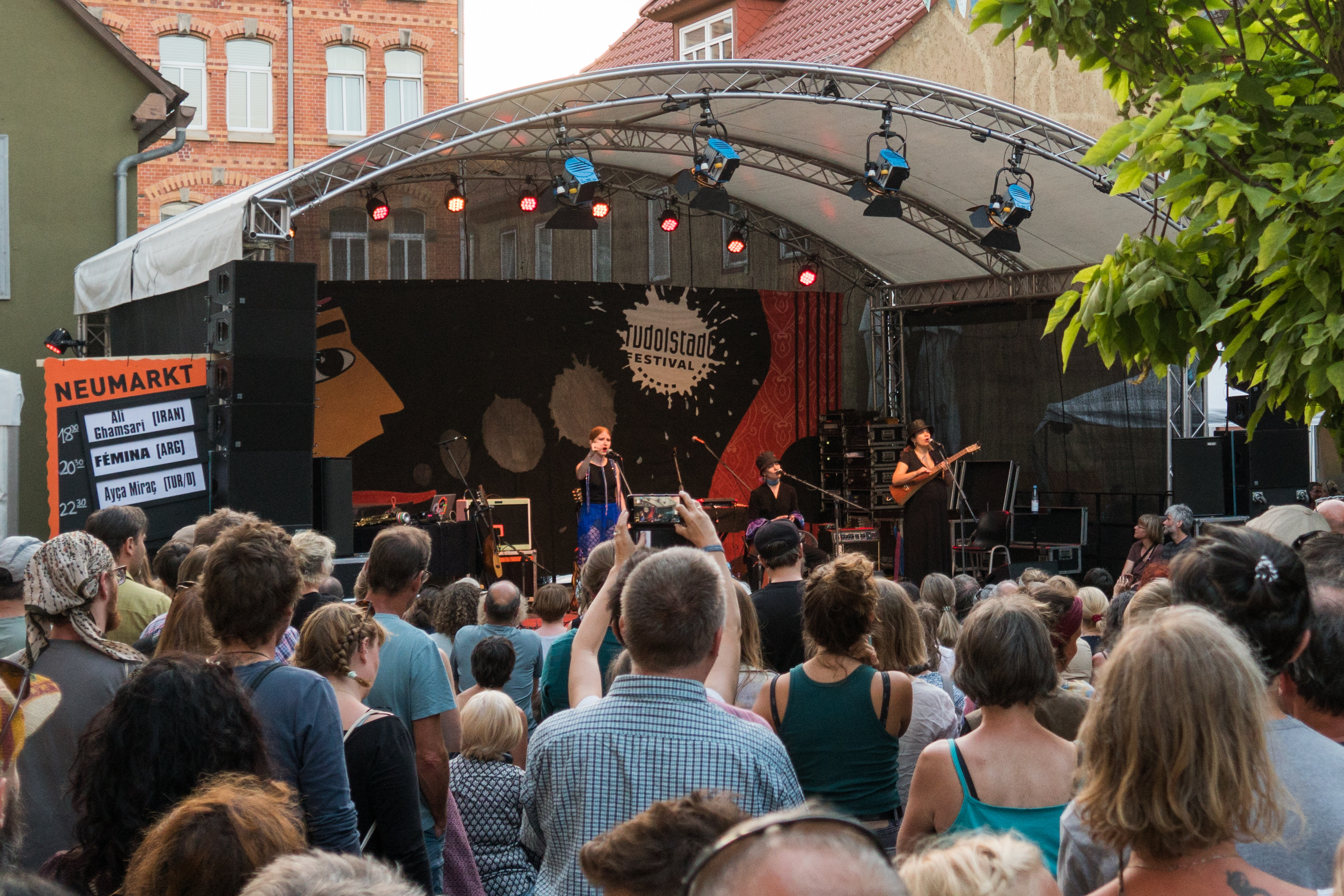 Fémina playing during the Rudolstadt-Festival 2019.